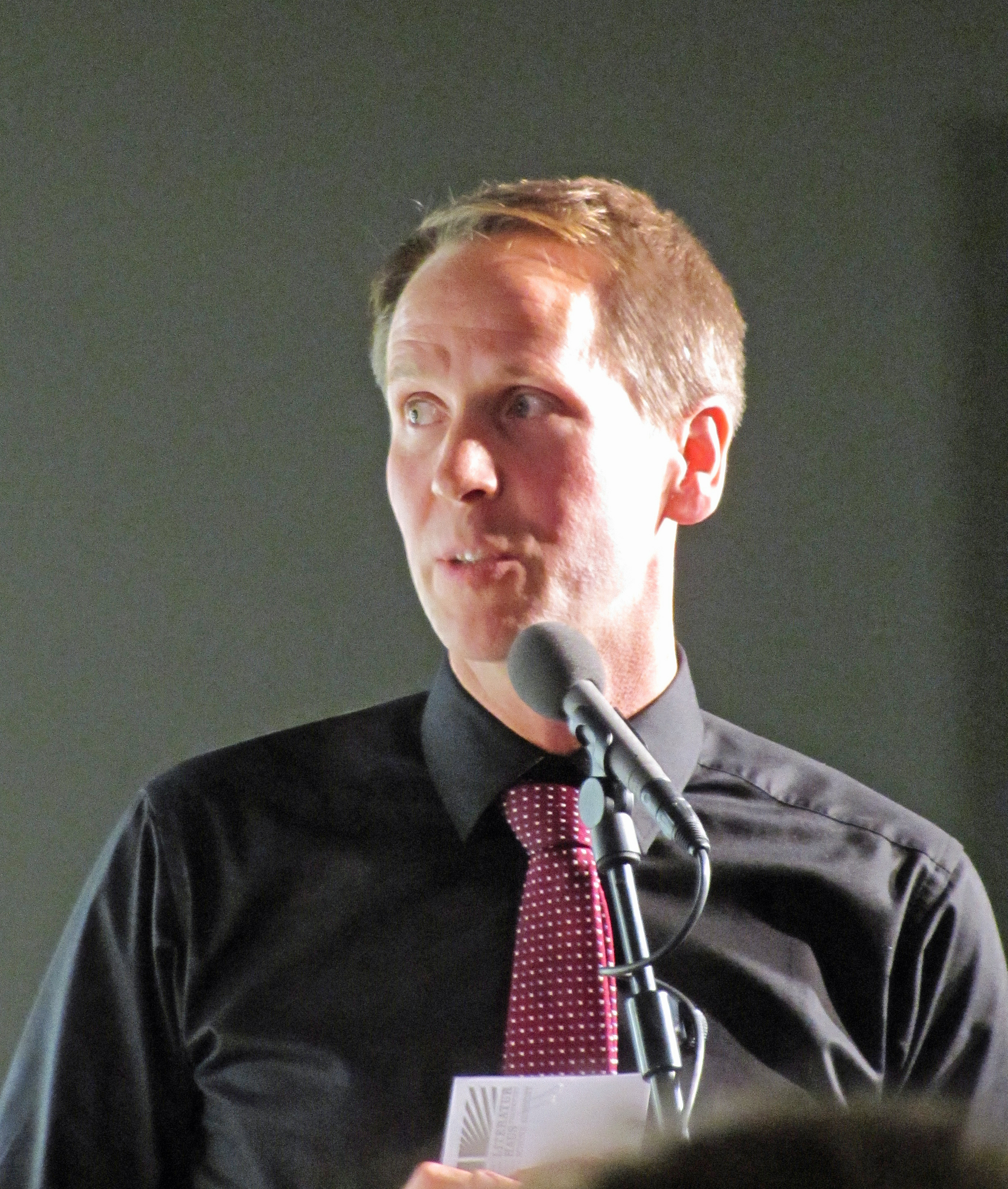 Hauke Hueckstaedt, managing director of "Literaturhaus" Frankfurt, 2010, Frankfurt am Main, Germany.